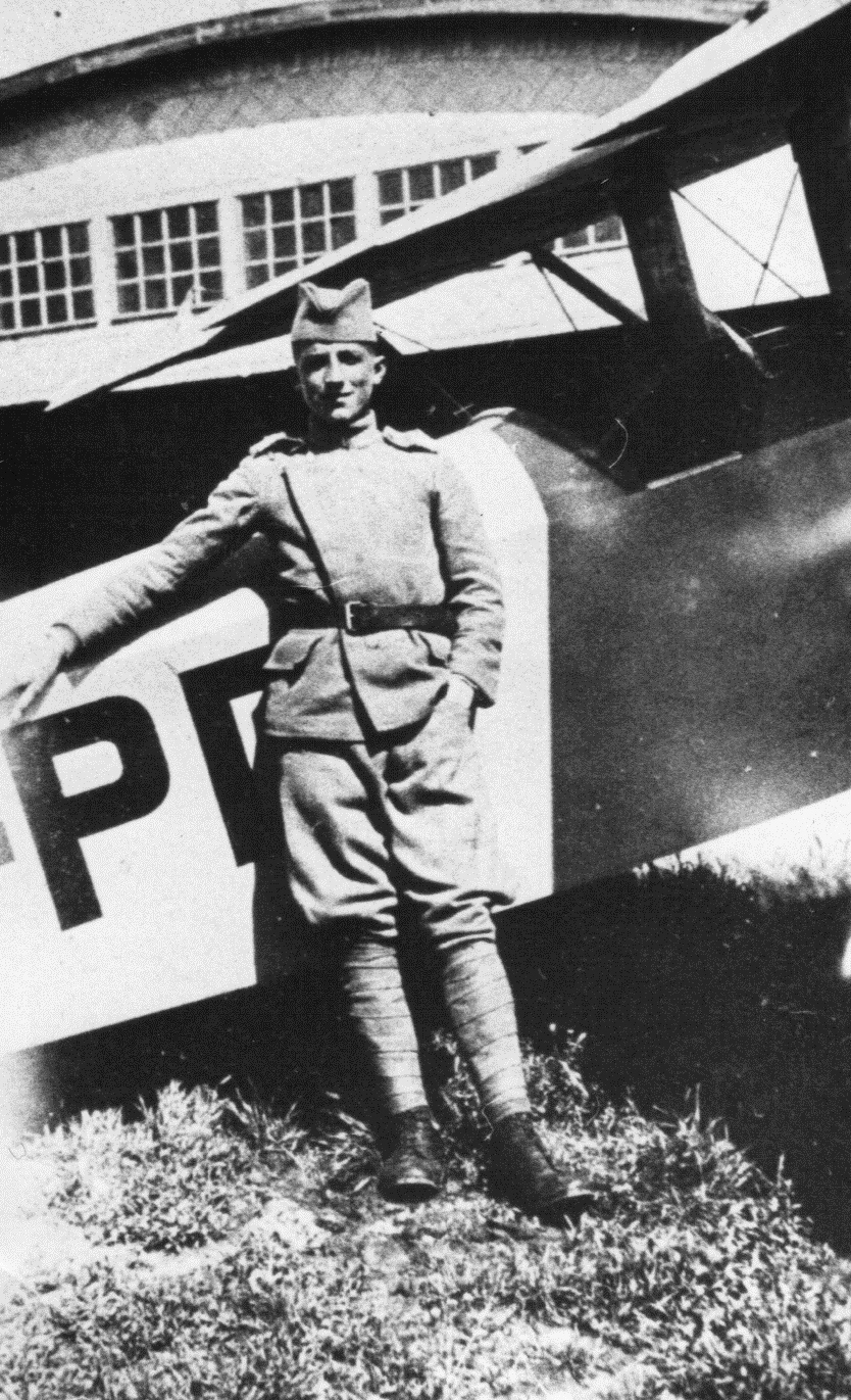 Živan Marković Žića (1919-1942)